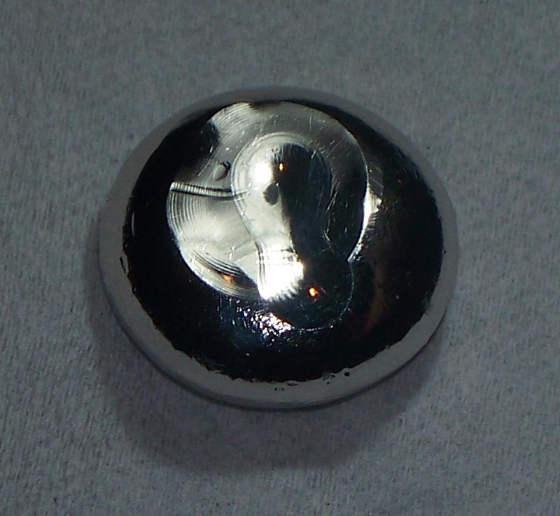 1 troy ounce arc-melted 99.99% iridium button